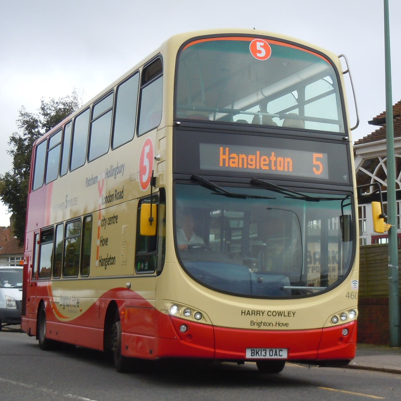 Brighton & Hove 460 Harry Cowley (BK13 OAC), a Volvo B9TL/Wright Eclipse Gemini 2, at West Way, Hangleton, with a route 5 bus serving the Hangleton estate. (This is a cropped and PD-licenced version of a photo I have already uploaded to my Flickr account: [1]; the uncropped version has also been uploaded to Commons as shown in the link below)